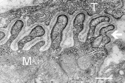 Electron micrograph showing a cross-section through the neuromuscular junction. T is the axon terminal, M is the muscle fiber. The arrow shows junctional folds with basal lamina. Postsynaptic densities are visible on the tips between the folds. The scale is 0.3 µm.